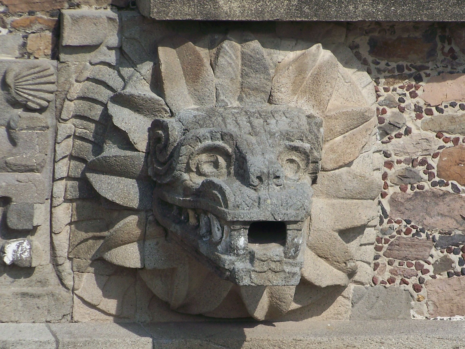 One of the feathered serpent heads that decorated the Temple of the Feathered Serpent in Teotihuacan.